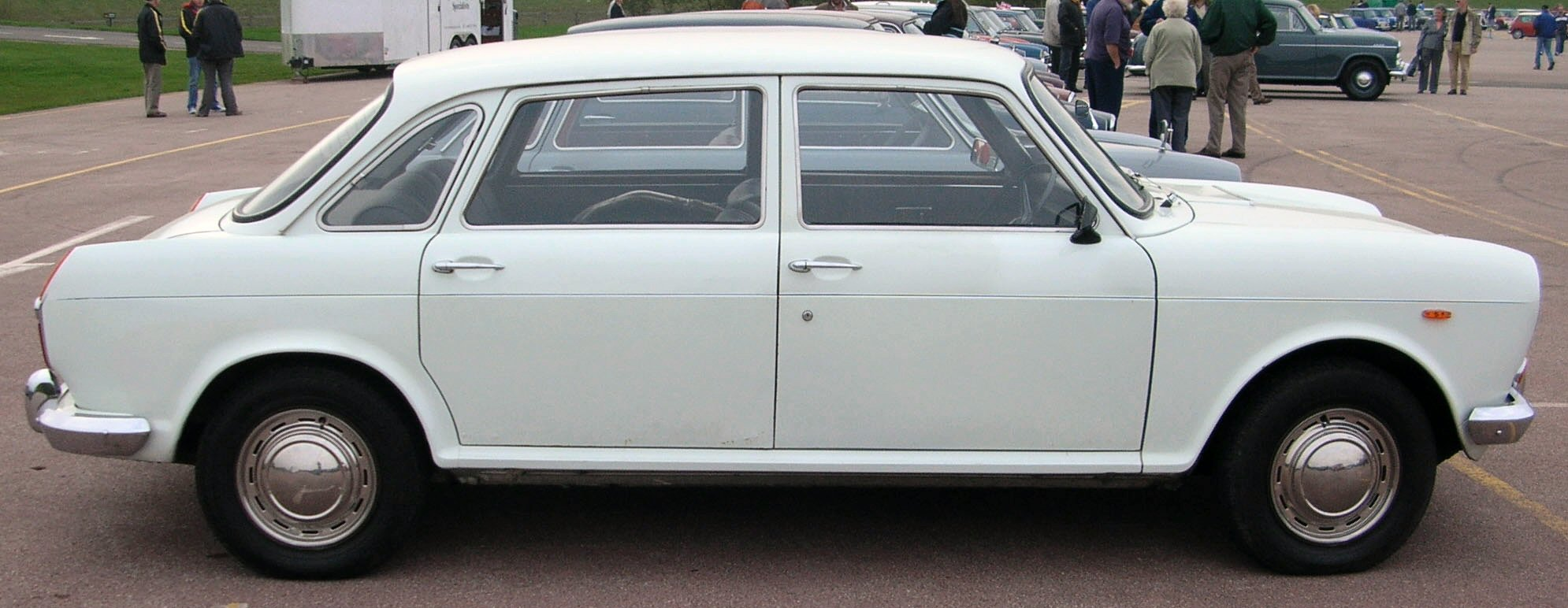 A 1969 Austin 1800 Mk II Automatic. Photographed at the Alec Issigonis centenary rally at the Heritage Motor Centre, Gaydon, UK.